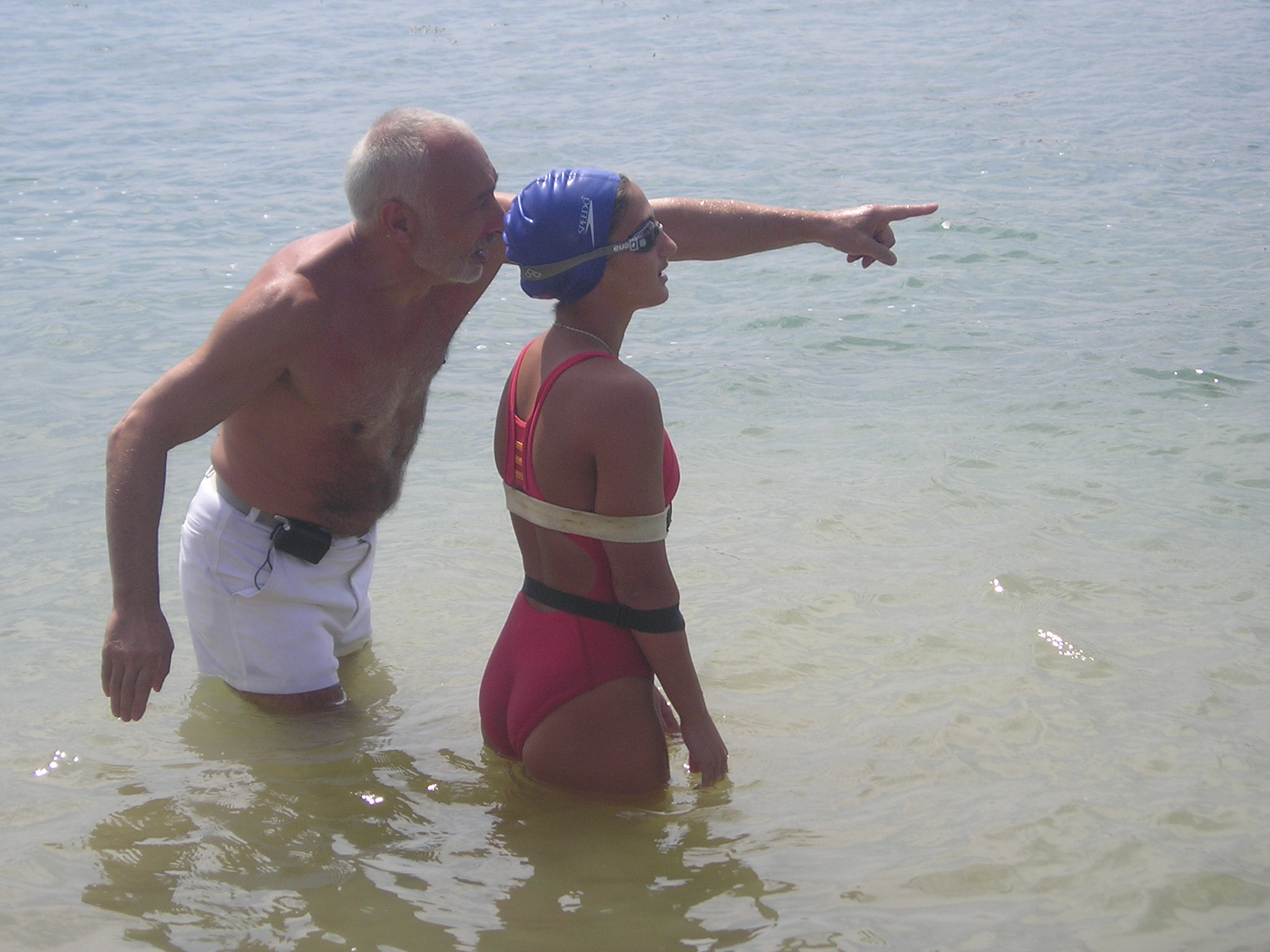 Orientation